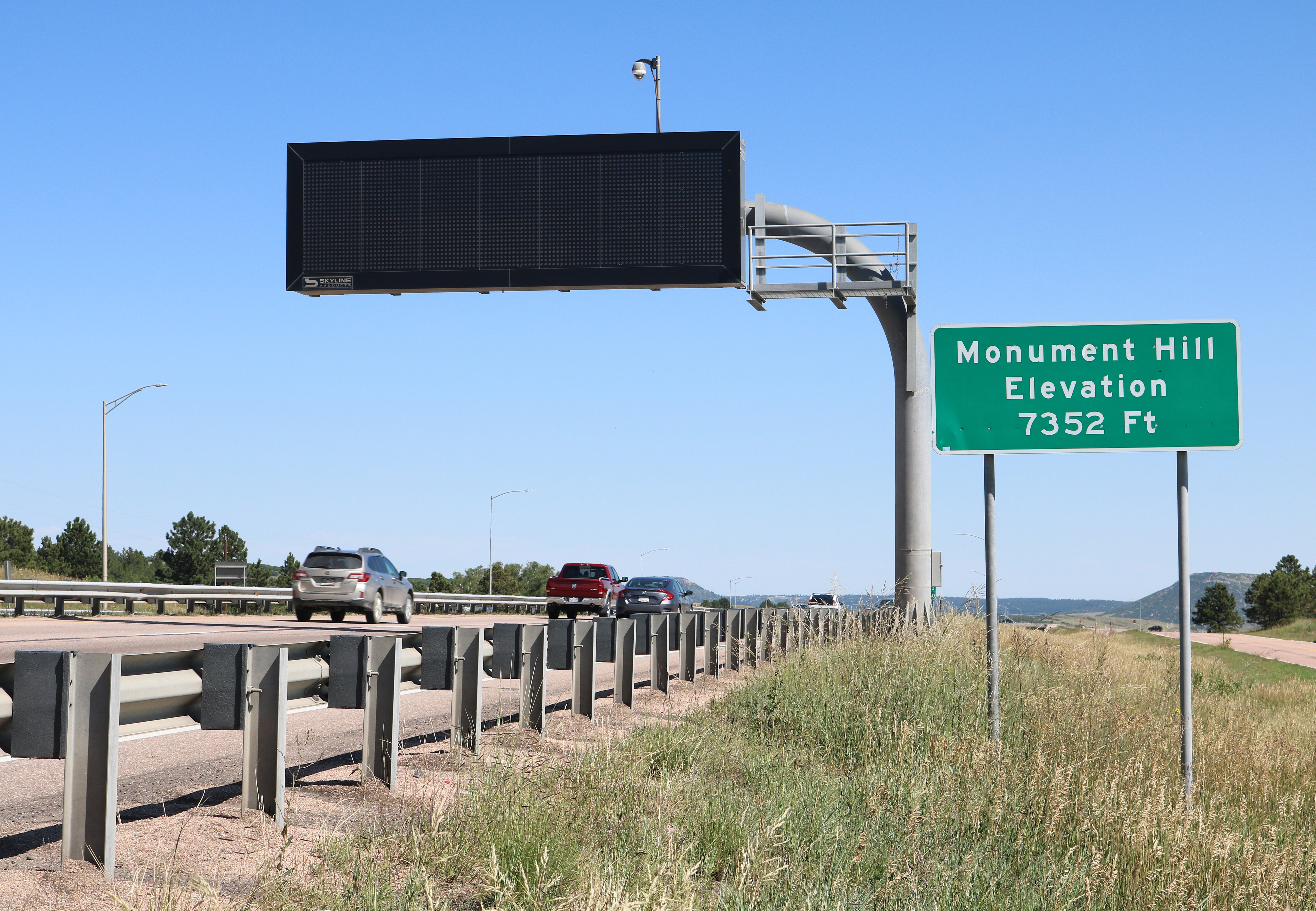 The sign at the top of Monument Hill in Colorado. Also called Black Forest Divide Pass, the hill marks the boundary between El Paso County to the south and Douglas County to the north. Interstate 25 (left) traverses the pass, and Monument Hill Road appears on the right.